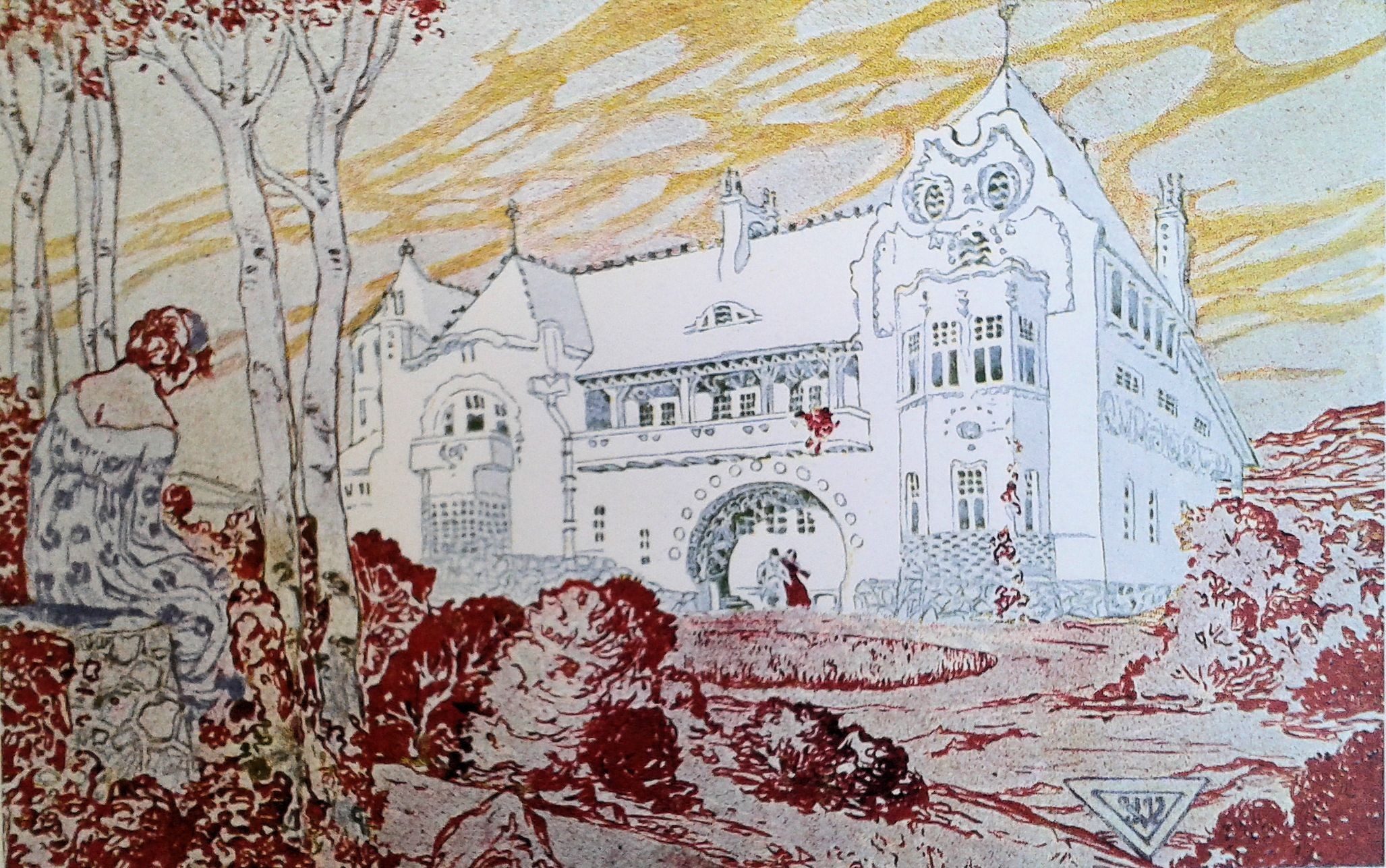 Plan of a countra home. Architects: László and József Vágó. Originally published in A Ház magazine, 1908.